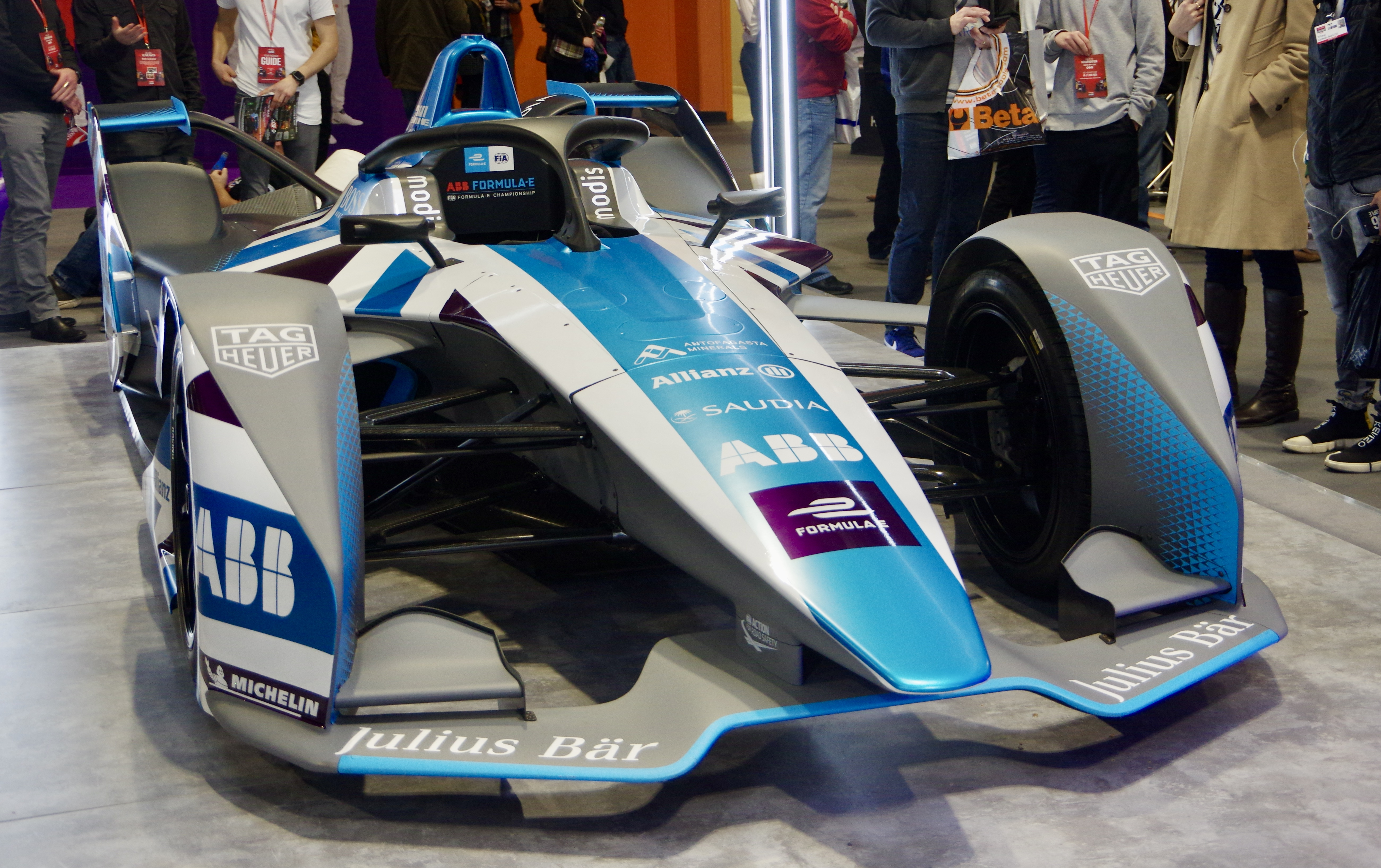 The Spark SRT05e (Gen2) Formula E car with a special Union Jack-inspired livery promoting the upcoming 2020 London ePrix at ExCeL London.